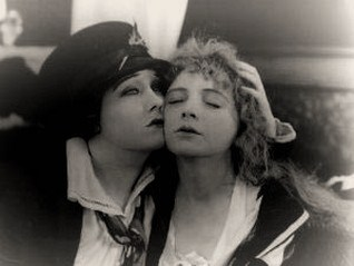 Gloria Swanson (left) and Ann Forrest (aka Ann Kroman) in Her Decision (1918) - publicity still.